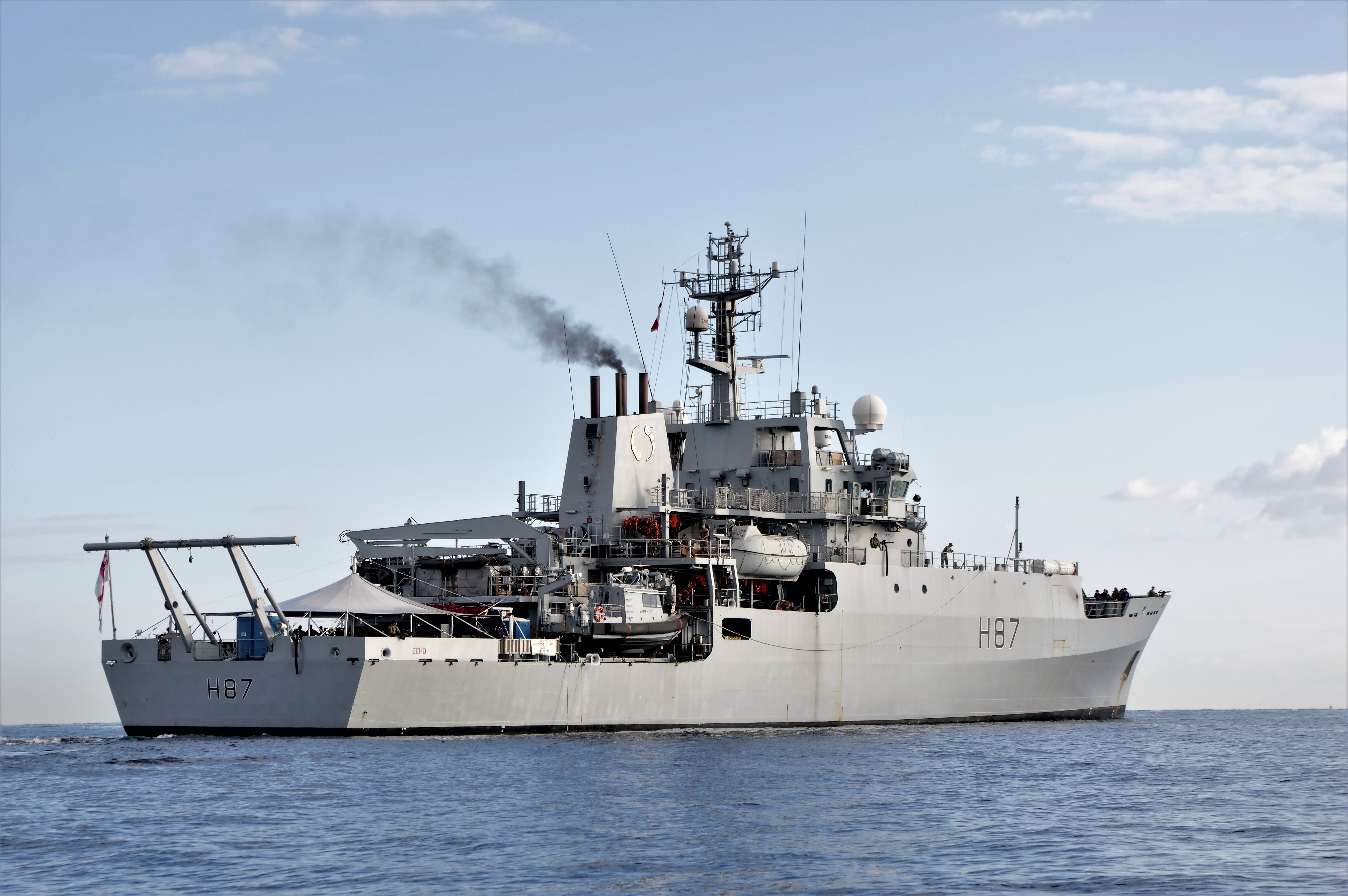 Under Sail From Valletta Malta 03/12/2016